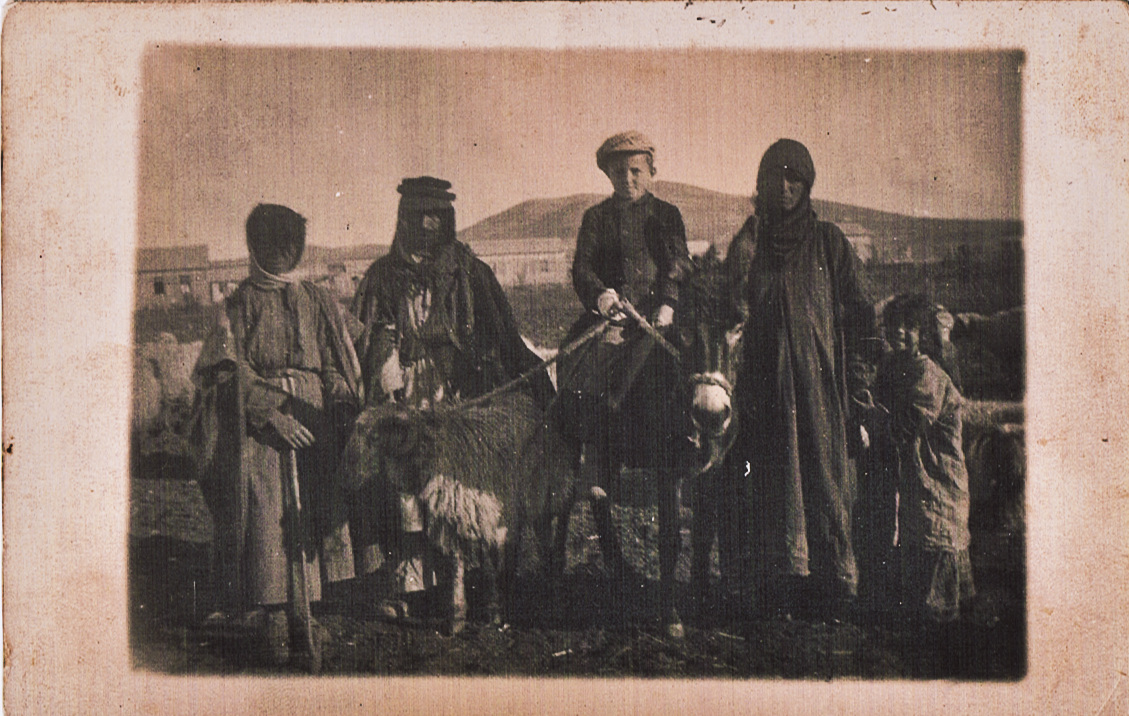 Jacob (Eugene, Jean) Salomon (Salamon) childhood kfar Gidon Jezreel Valley 1920s